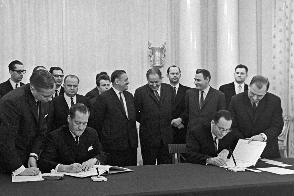 “Signing Soviet-Finnish consular convention”. Head of department of Finnish Foreign Ministry, Veli Helenius, left, and head of USSR Foreign Ministry, Oleg Khlestov, signing a Soviet-Finnish consular convention.